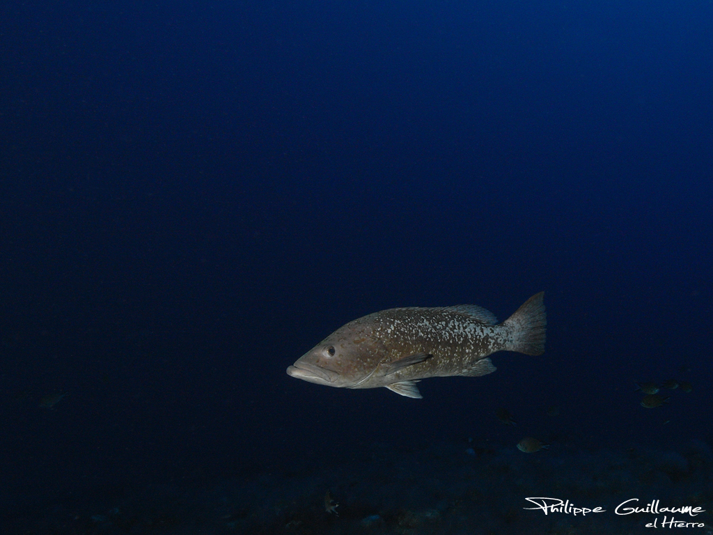 Mycteroperca fusca El Hierro, Canary islands